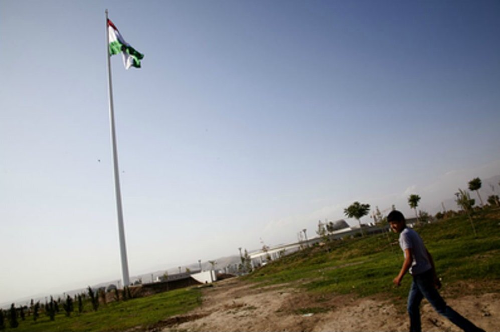 The world's tallest flagpole (165 meters, 540 ft) in Dushanbe, Tajikistan. September 29, 2011